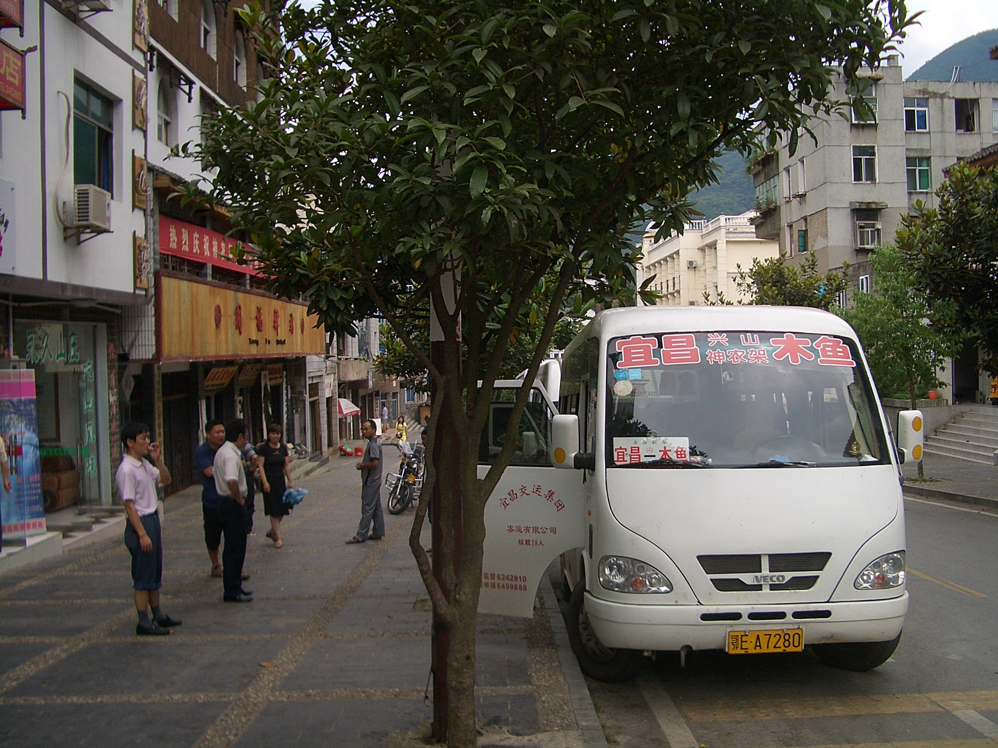 An Yichang-Muyu shuttle bus waiting for passengers in the main street of Muyu Town (Shennongjia District). Iveco Traveller bus (reg. E-A7280) with Iveco Daily Mk2 chassis.